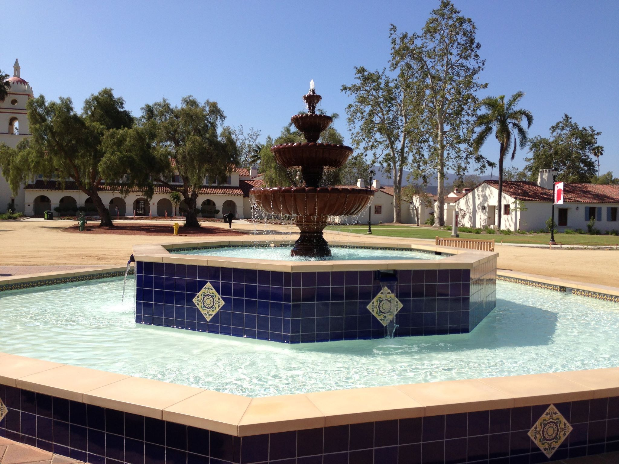 CSUCI Mall Fountain